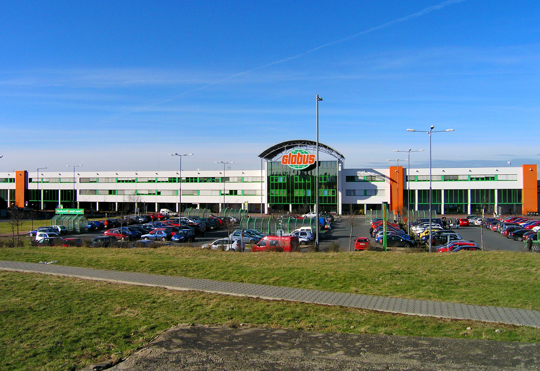 Shopping centre Globus in Čakovice, Prague